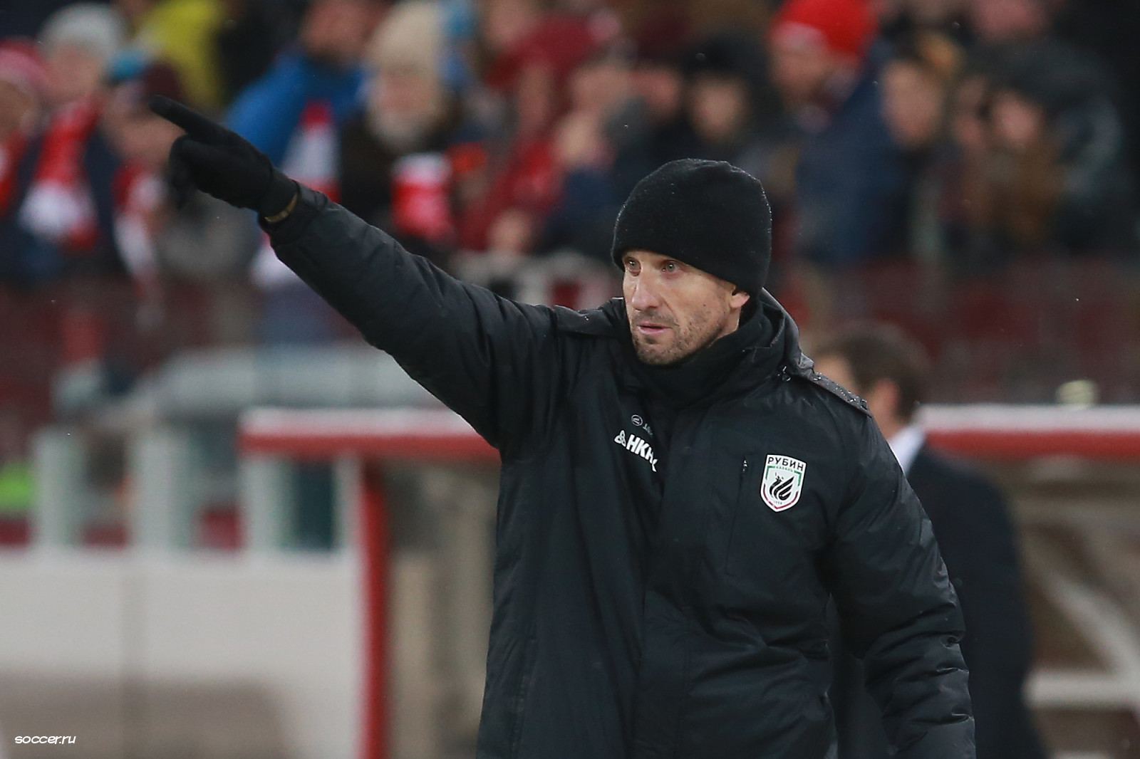 Javier Gracia Carlos